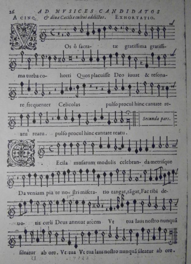 One page of the lost "Offici divae Ceciliae" by Abraham Blondet (1610). Paris BNF (Mus.).